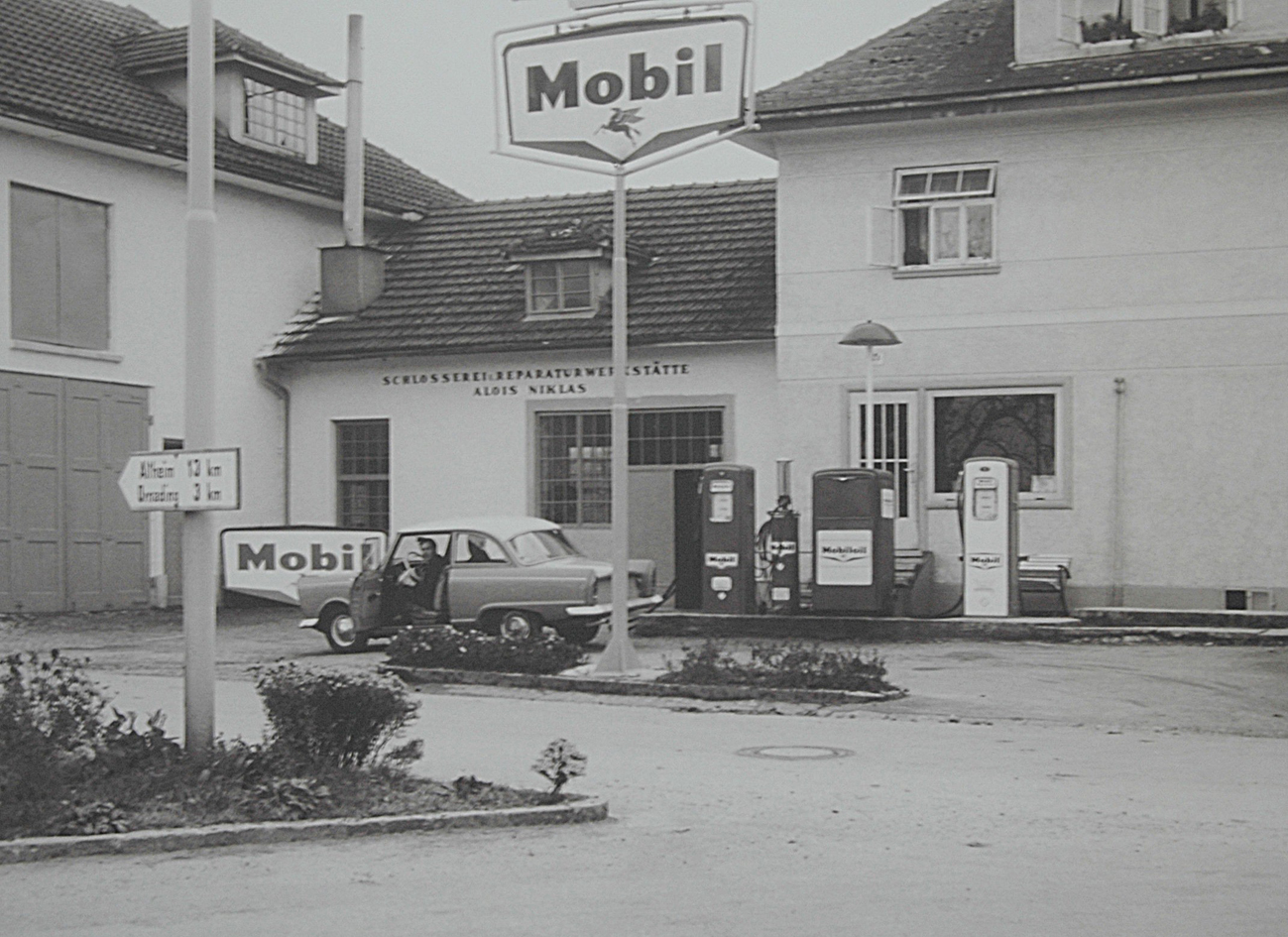 Fill Gesellschaft m.b.H. 1966, 2 employees